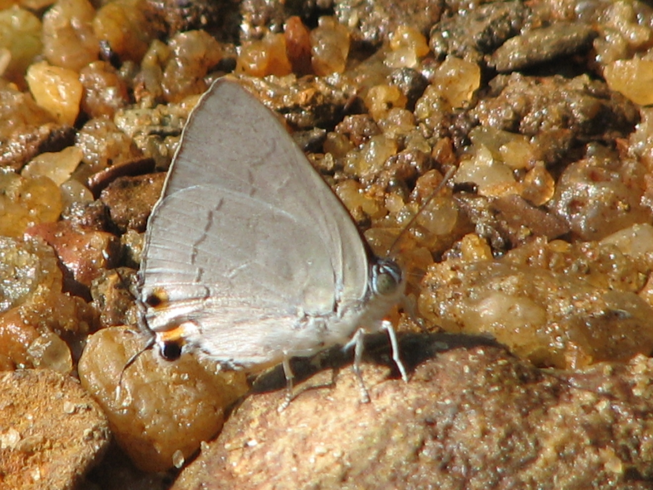 silver royal